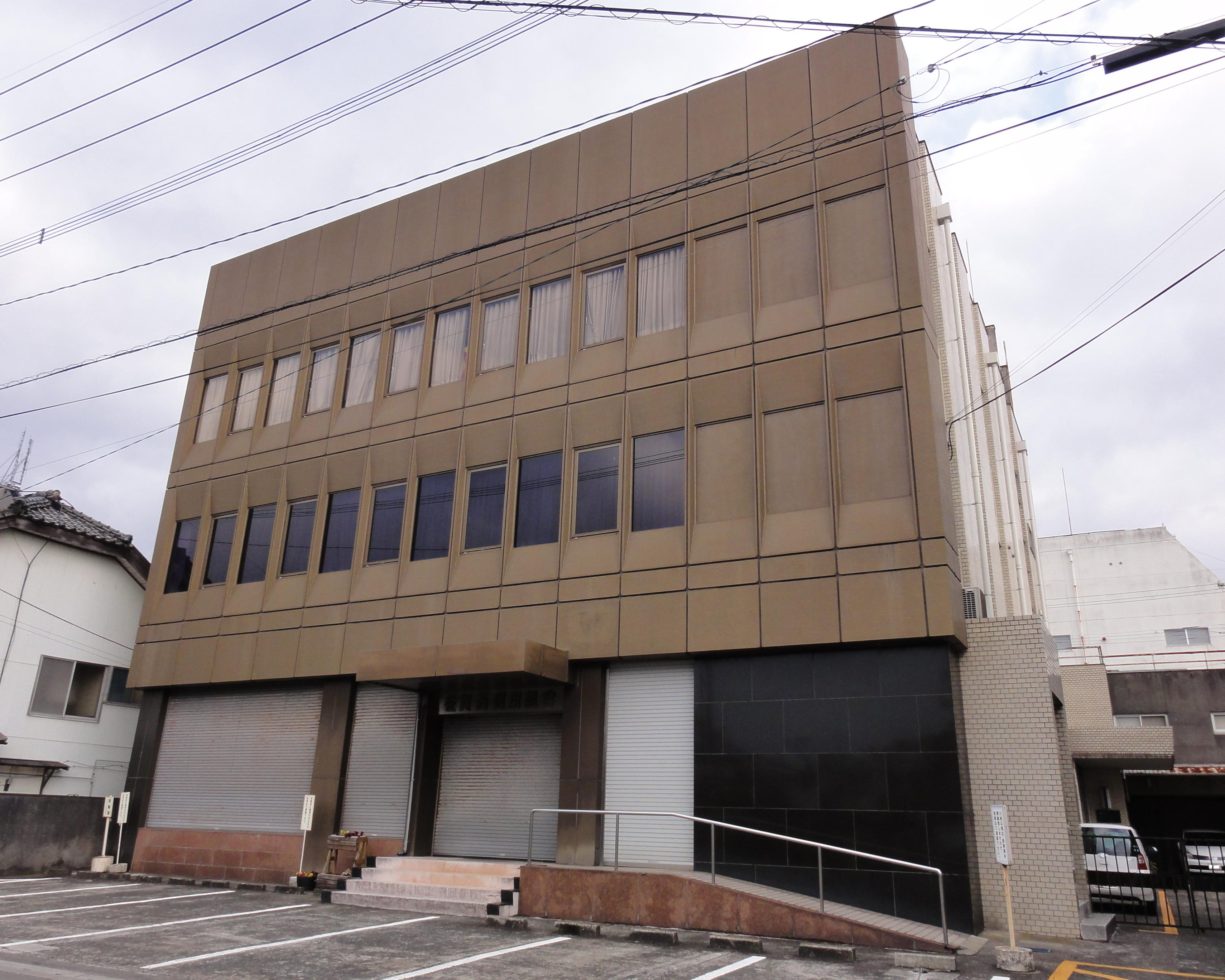 Saga-Nishi Credit union(Head office),Saga prefecture,Japan